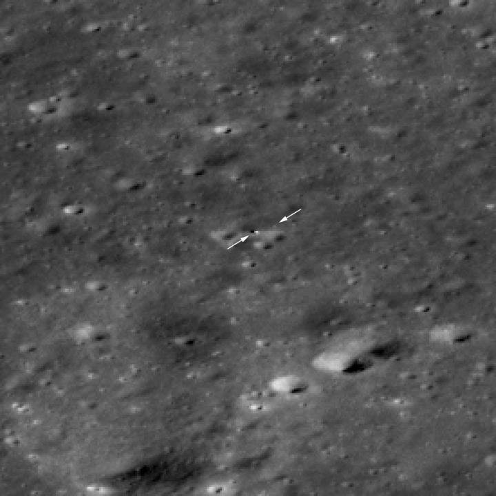 The Chang'e 4 rover is now visible to LROC! - Just beyond the tip of the right arrow is the rover and the lander is to the right of the tip of the left arrow. The image appears blocky because it is enlarged 4x to make it easier to see the two vehicles. North is to the upper right, LROC NAC M1303570617LR.[1] References ↑ NASA (8 February 2019). "Chang'e 4 Rover comes into view". EureAlert!. Retrieved on 9 February 2019.